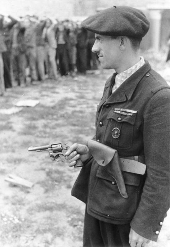 Information added by Wikimedia users.